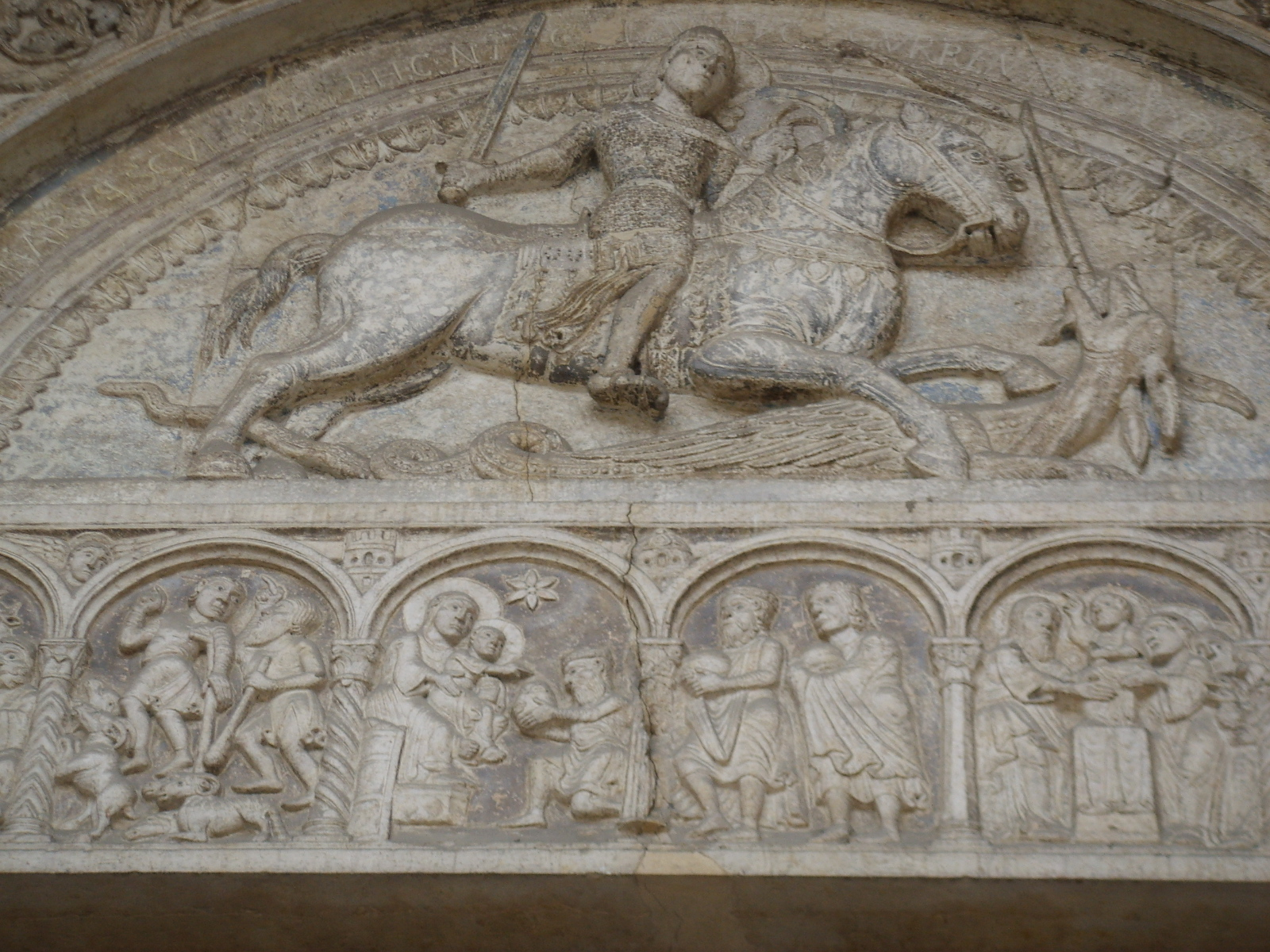 Lunette (showing Saint George) and architrave (showing Scenes from the New Teastament) from the main portal of the Cathedral of Ferrara, sculpted by Romanesque artist "Magister Nicholaus" (12th century).